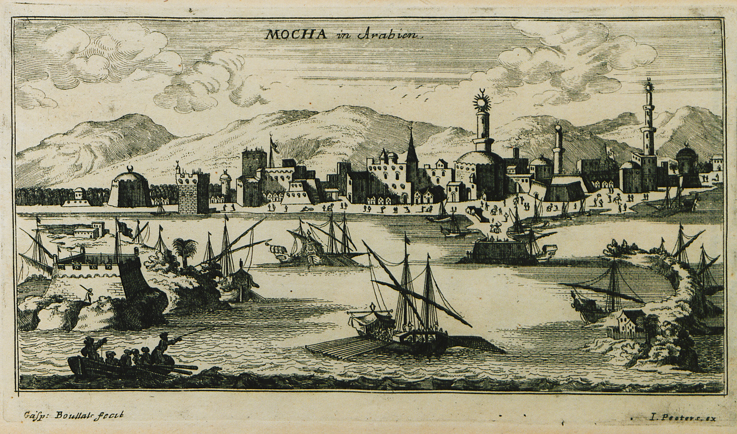 Jacob Peeters. Description des principales villes, havres et isles du golfe de Venise du coté oriental. Comme aussi des villes et forteresses de la Moree, et quelques places de la Grèce, Antwerp, Sur le marché des vieux Souliers, 1690.